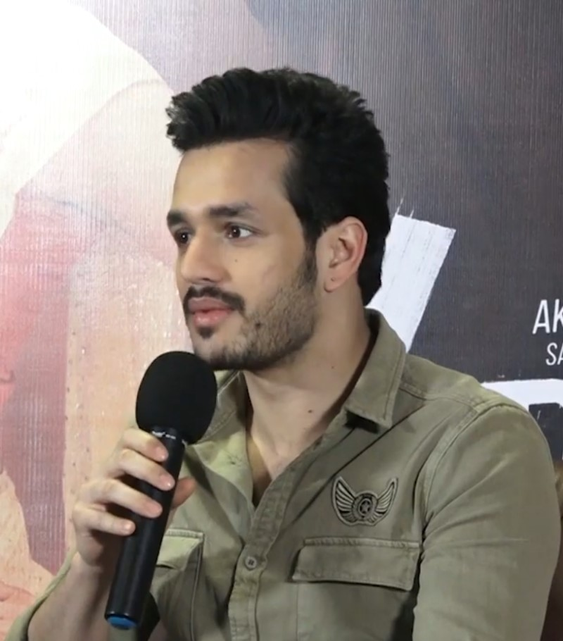 Indian film actor Akkineni Akhil promoting his Telugu film Hello in Hyderabad, India